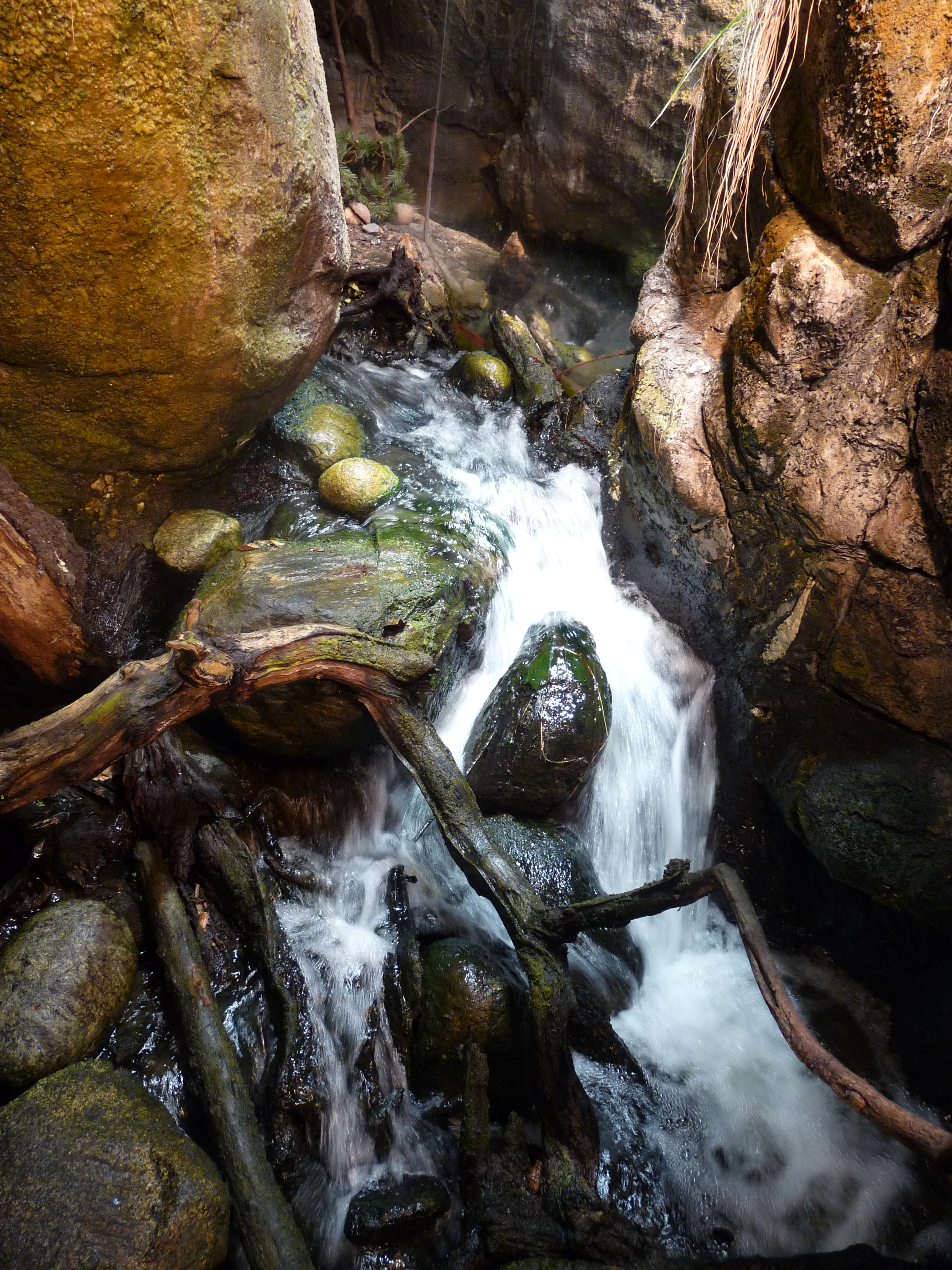 Aquaria